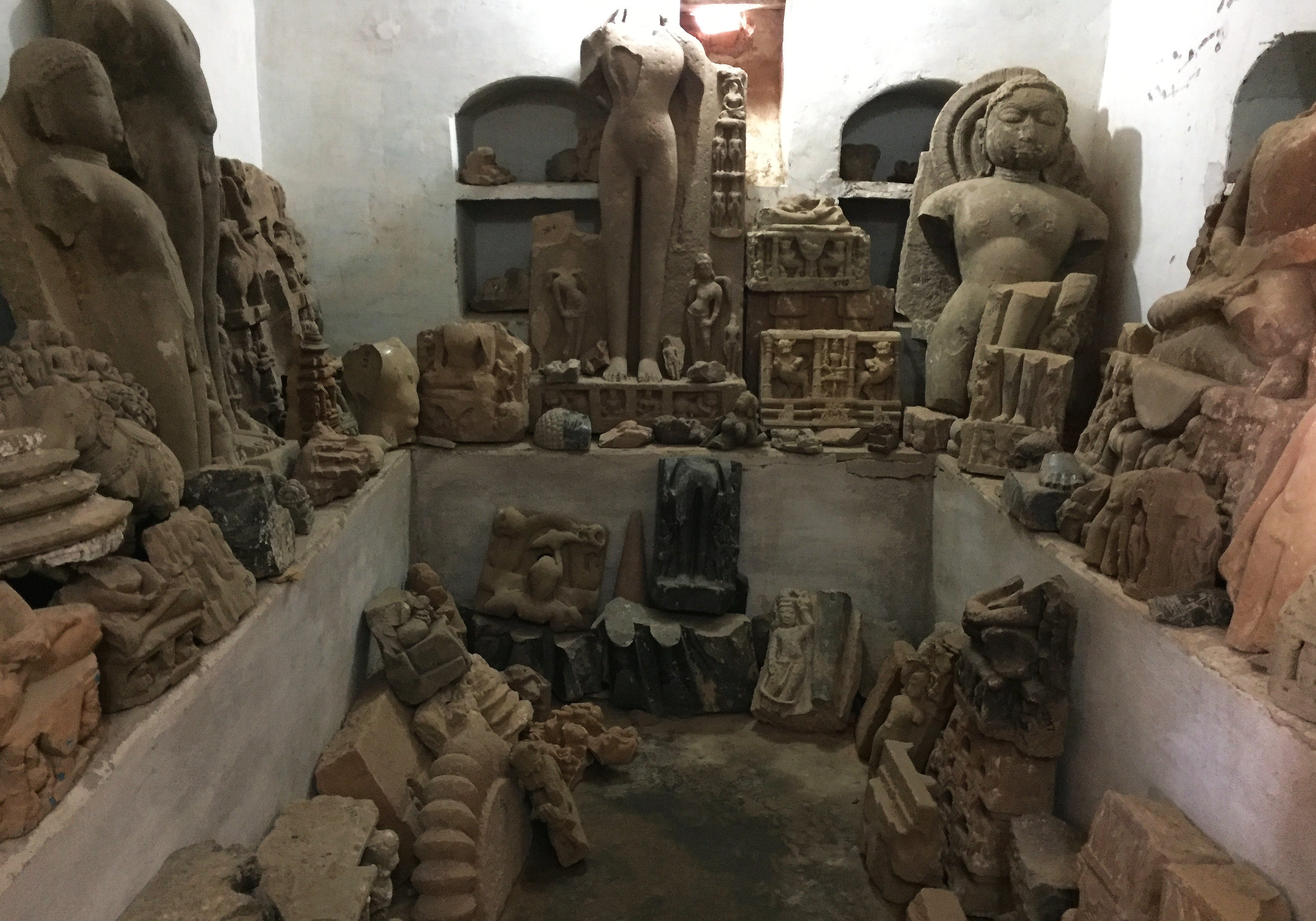 Navagarh ancient sculptures from 12th century and older